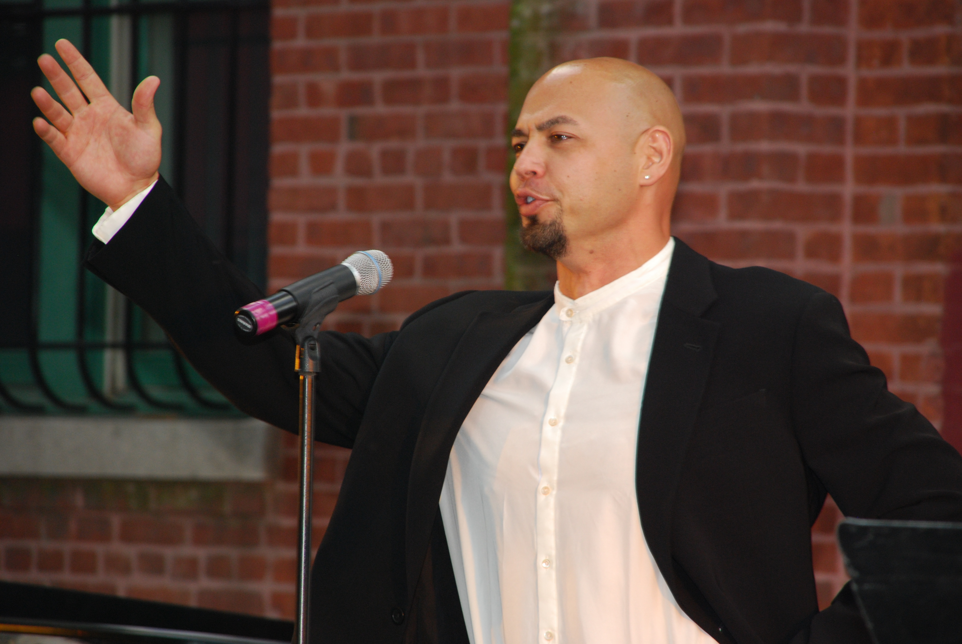 Keith Miller of the New York Metropolitan Opera performing on Staten Island.